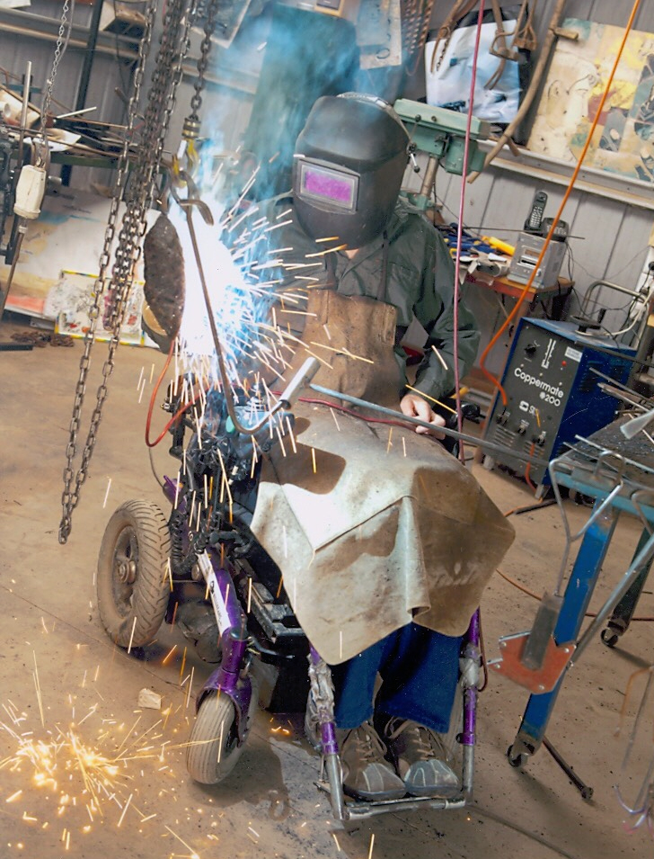 Australian Paralympian Peter Worsley is also an accomplished sculptor